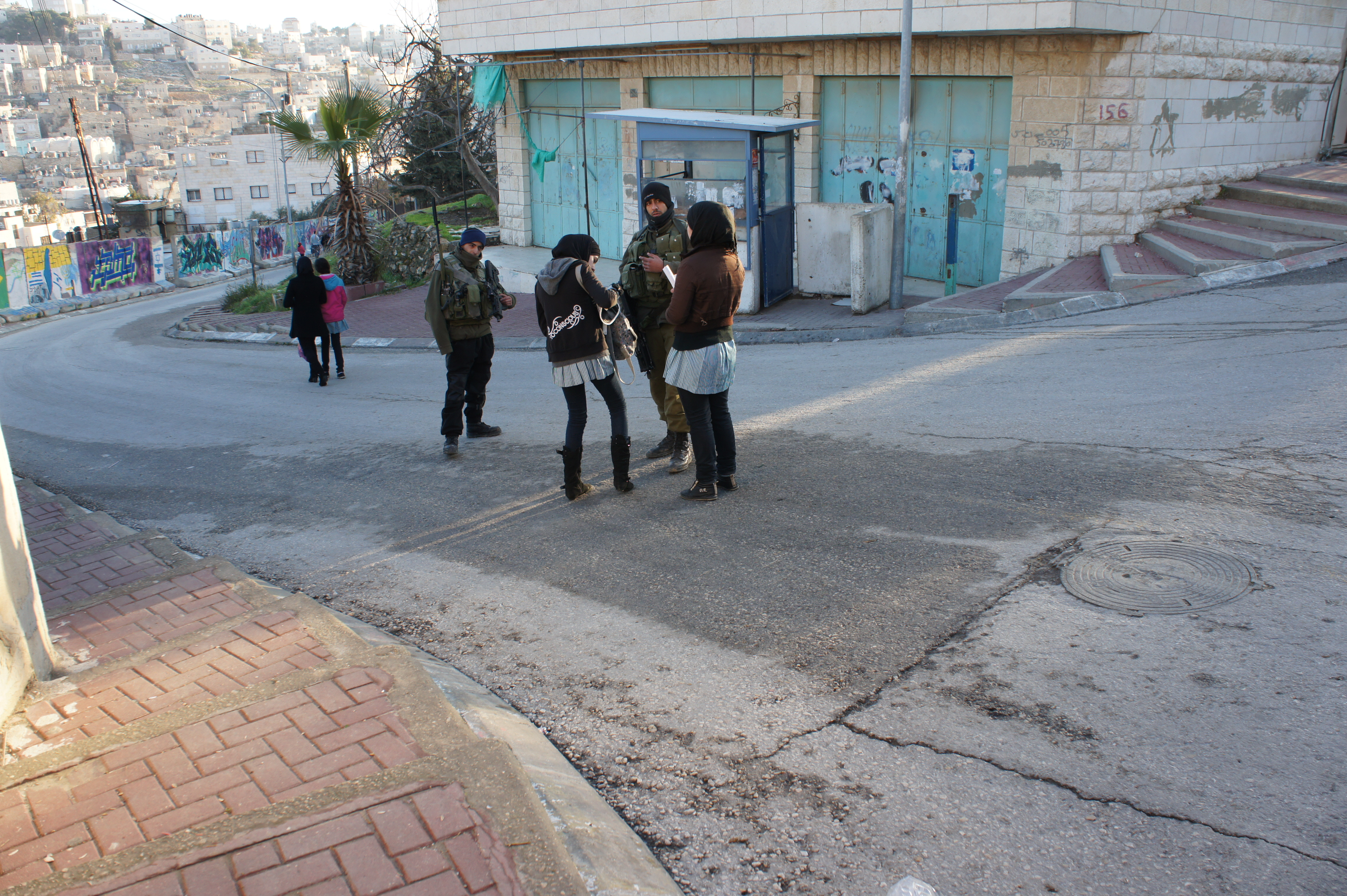 Golani soldiers checking Palestinian school-girls in Tel Rumaida, by Gilbert checkpoint.